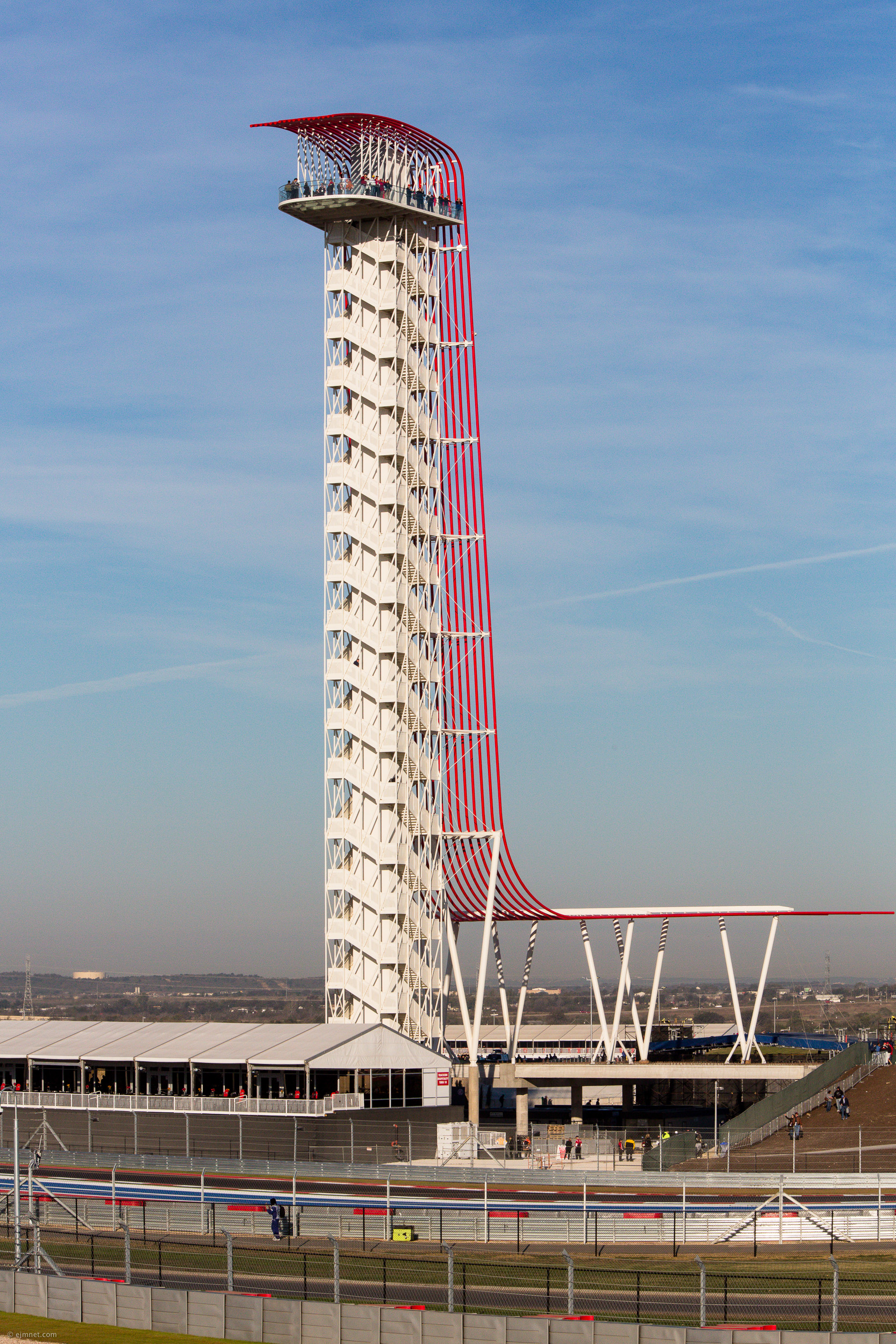 The Observation Tower from turn 3 on race day at Circuit of the Americas in Austin, Texas. This 250 foot (77 meter) high landmark was designed by Miro Rivera Architects. The flared out red pipes become the roof for an amphitheater.